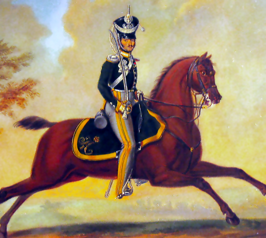 Congress Poland cavalryman